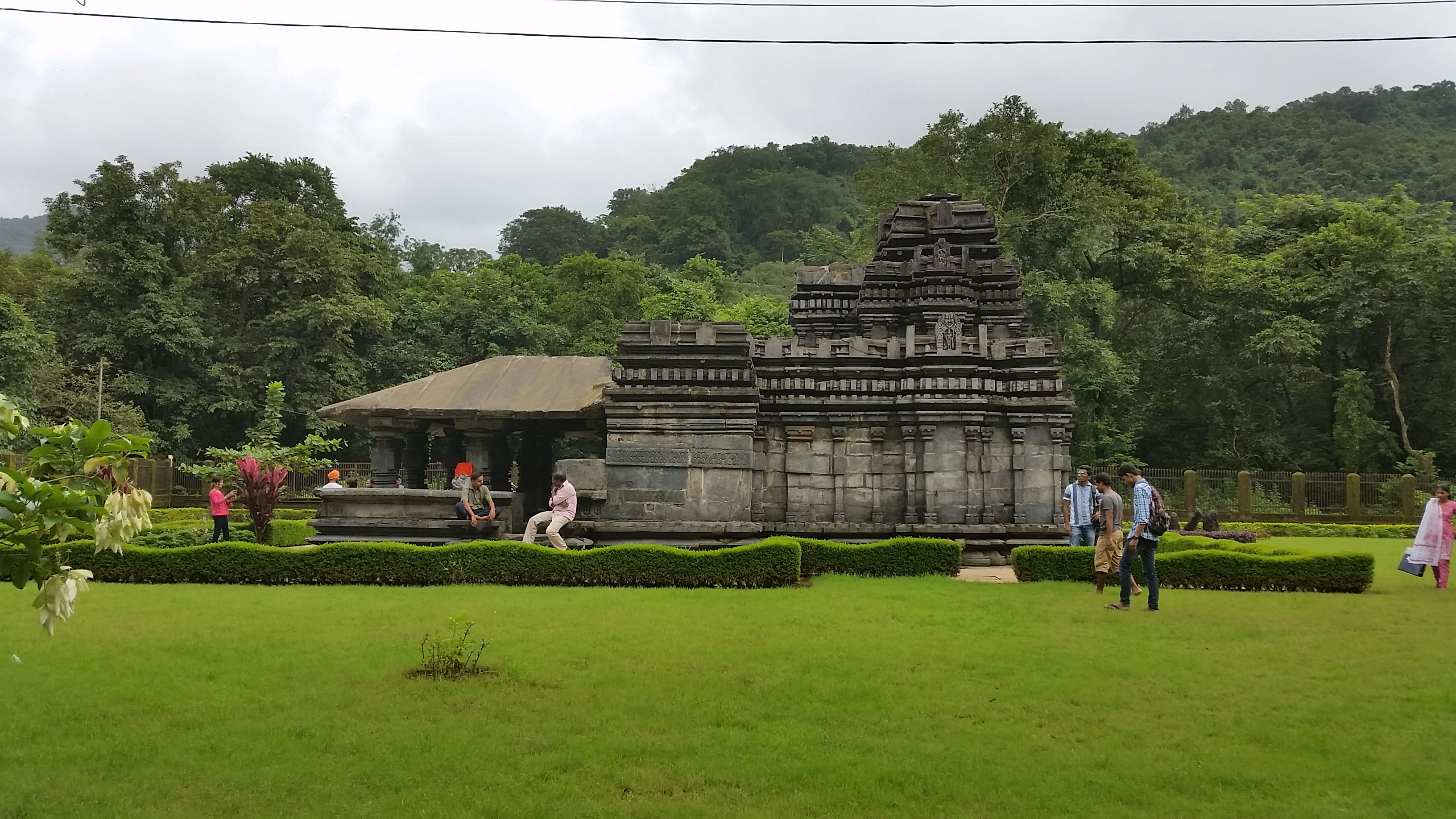 12th-century Shaivite temple of the Lord Mahadeva, Kadamba-Yadava architecture in basalt stone.